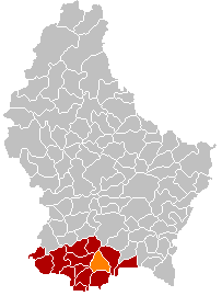 Own edit of Kanton Esch-sur-AlzetteLocatie.png